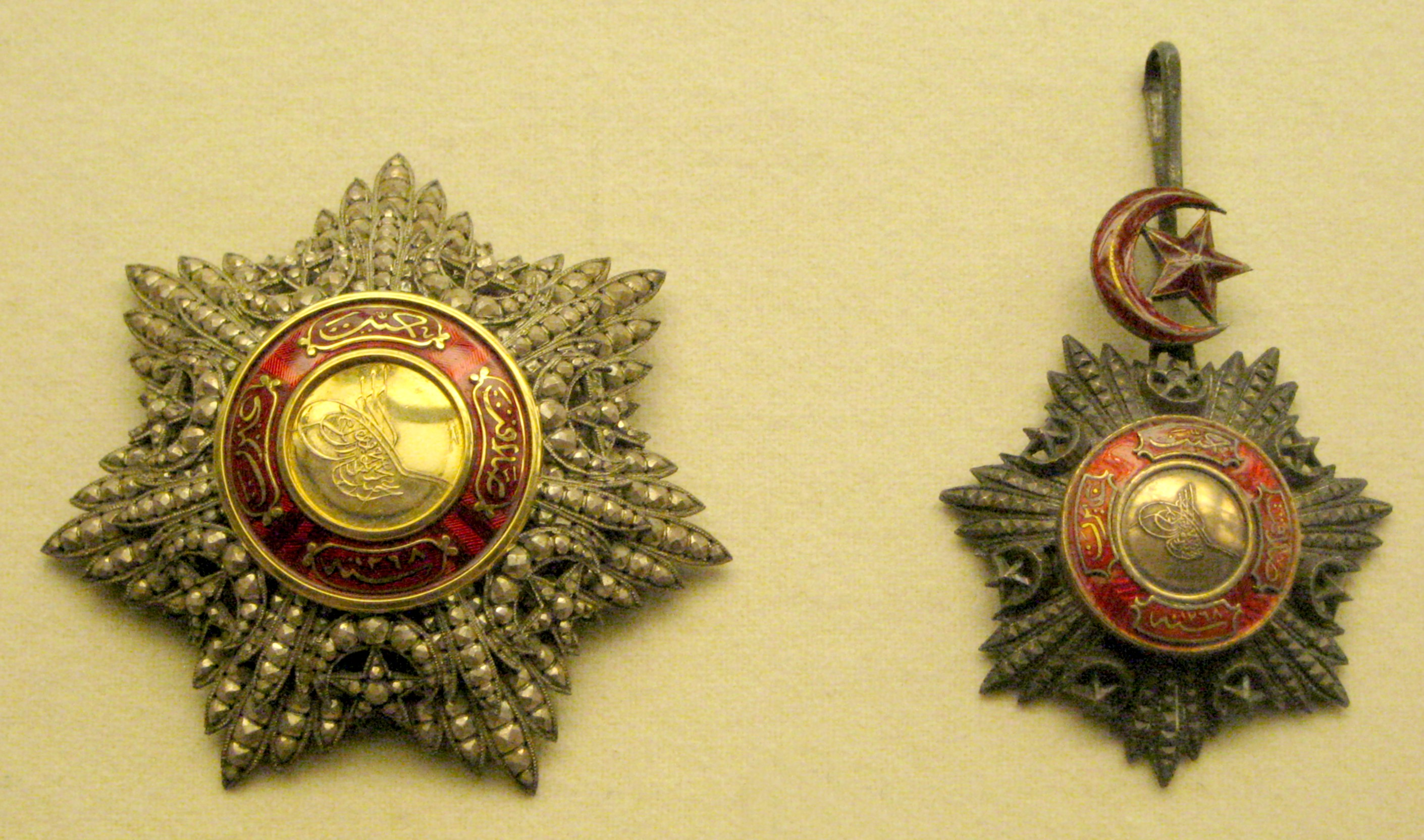 Mecidiye order, star and badge. Late 19th c.